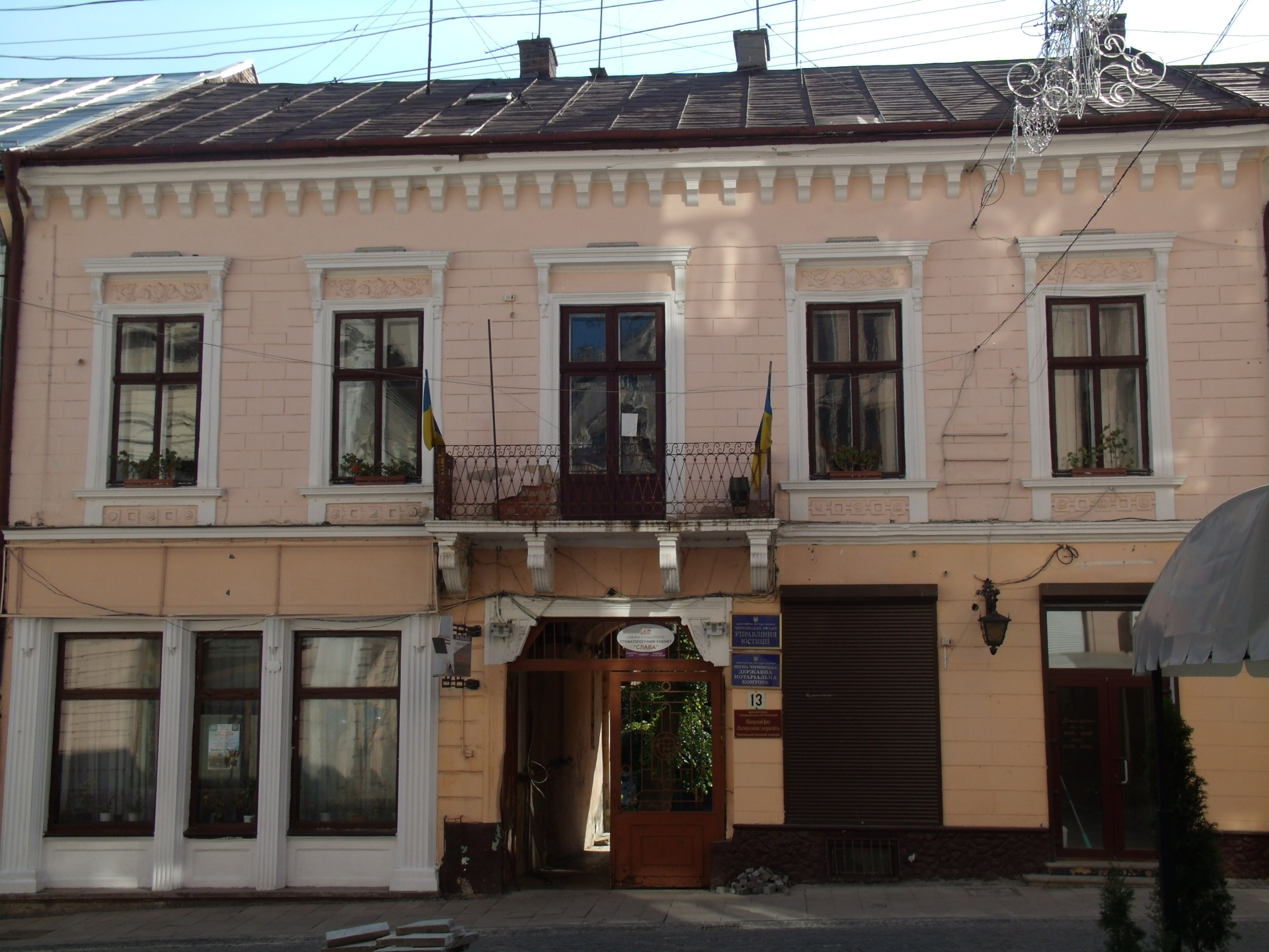 Chernivtsi, Kobylianska house 13